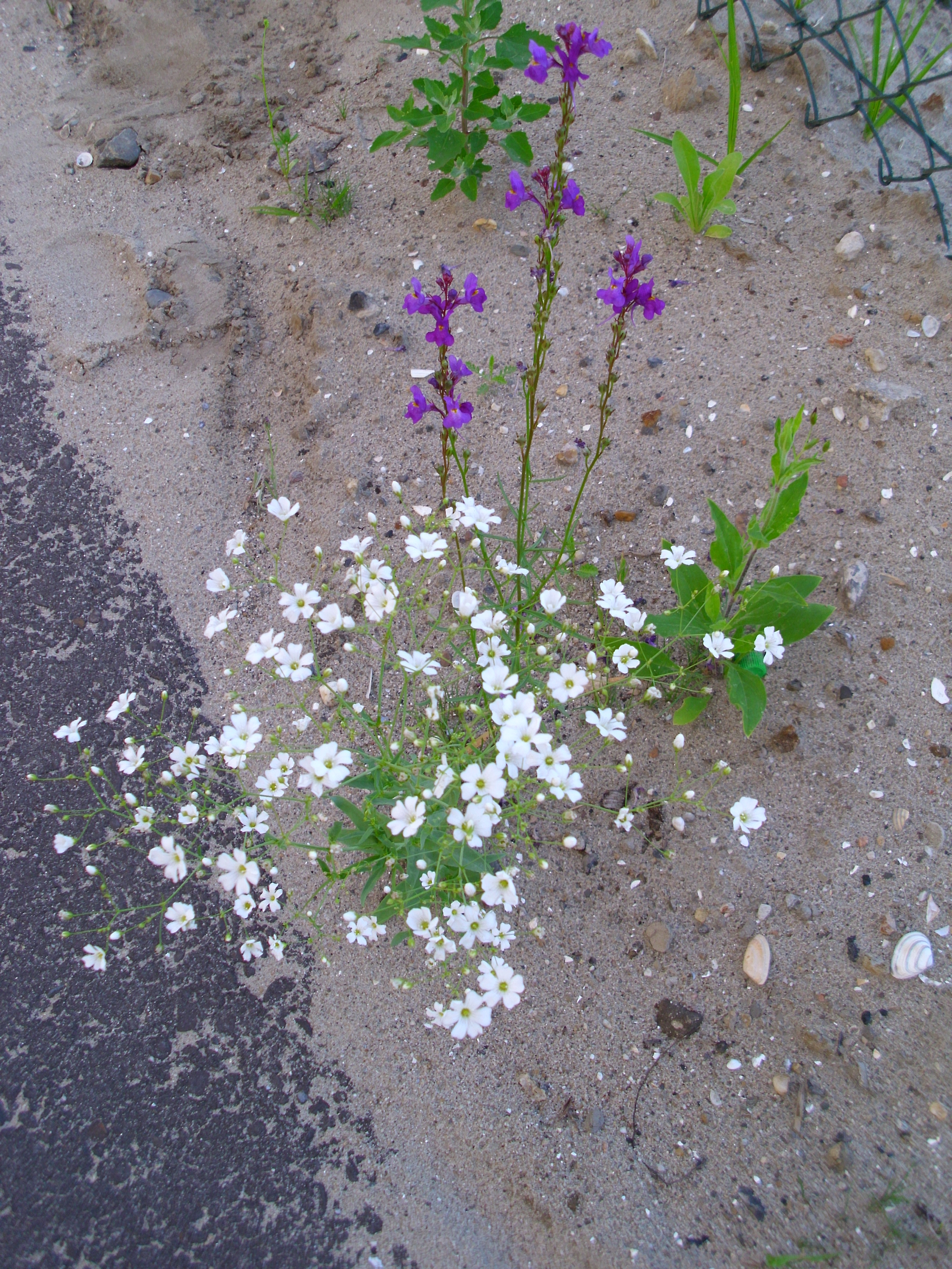 New (railroad) flora on verge